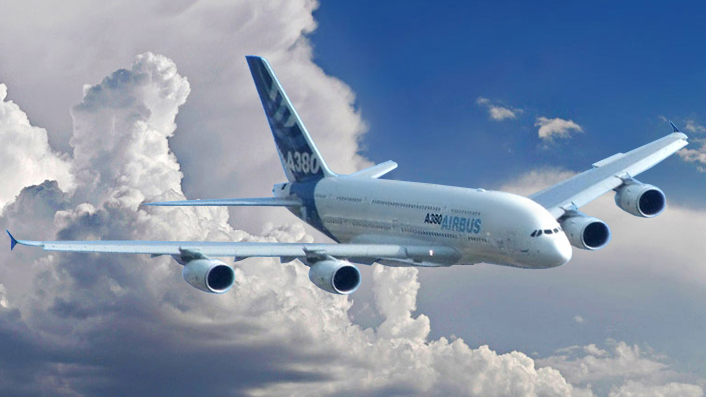 Composite photo of an Airbus A380. This is a retouched picture, which means that it has been digitally altered from its original version. Modifications: assembled two photos together.